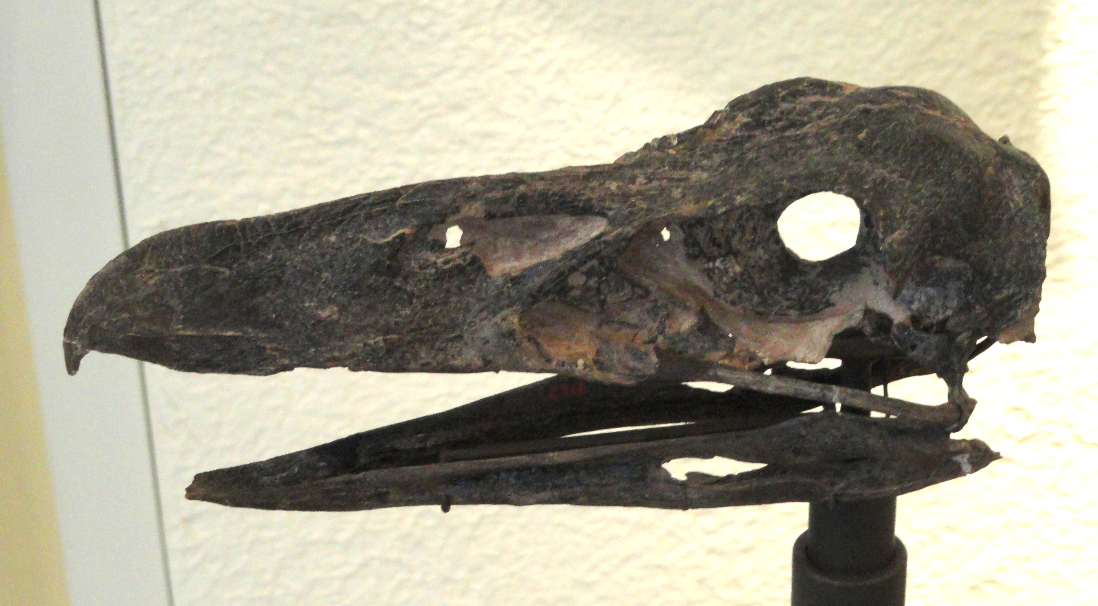 Skull of the terror bird Psilopterus australis (synonym of Psilopterus lemoinei), exhibit in the fossil collection of the American Museum of Natural History, Manhattan, New York City, New York, USA.